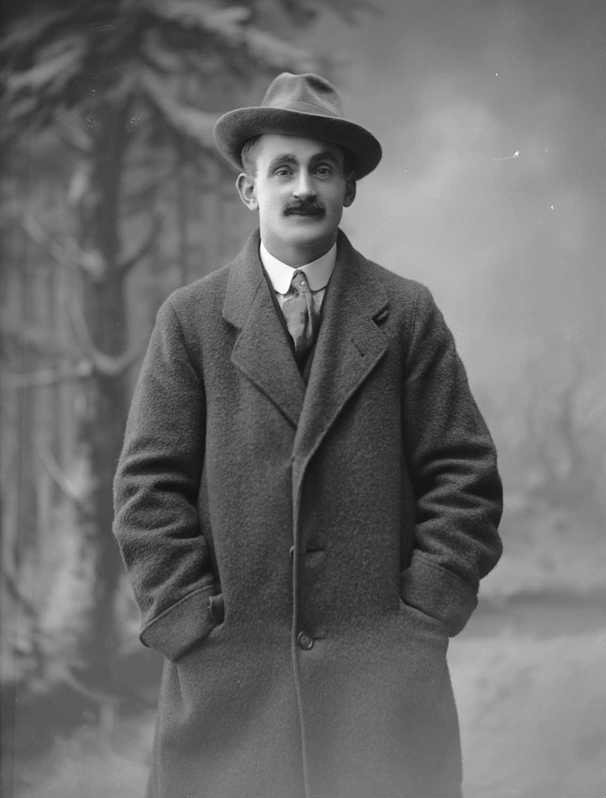 Skøyteløperen Oscar Mathisen 1914